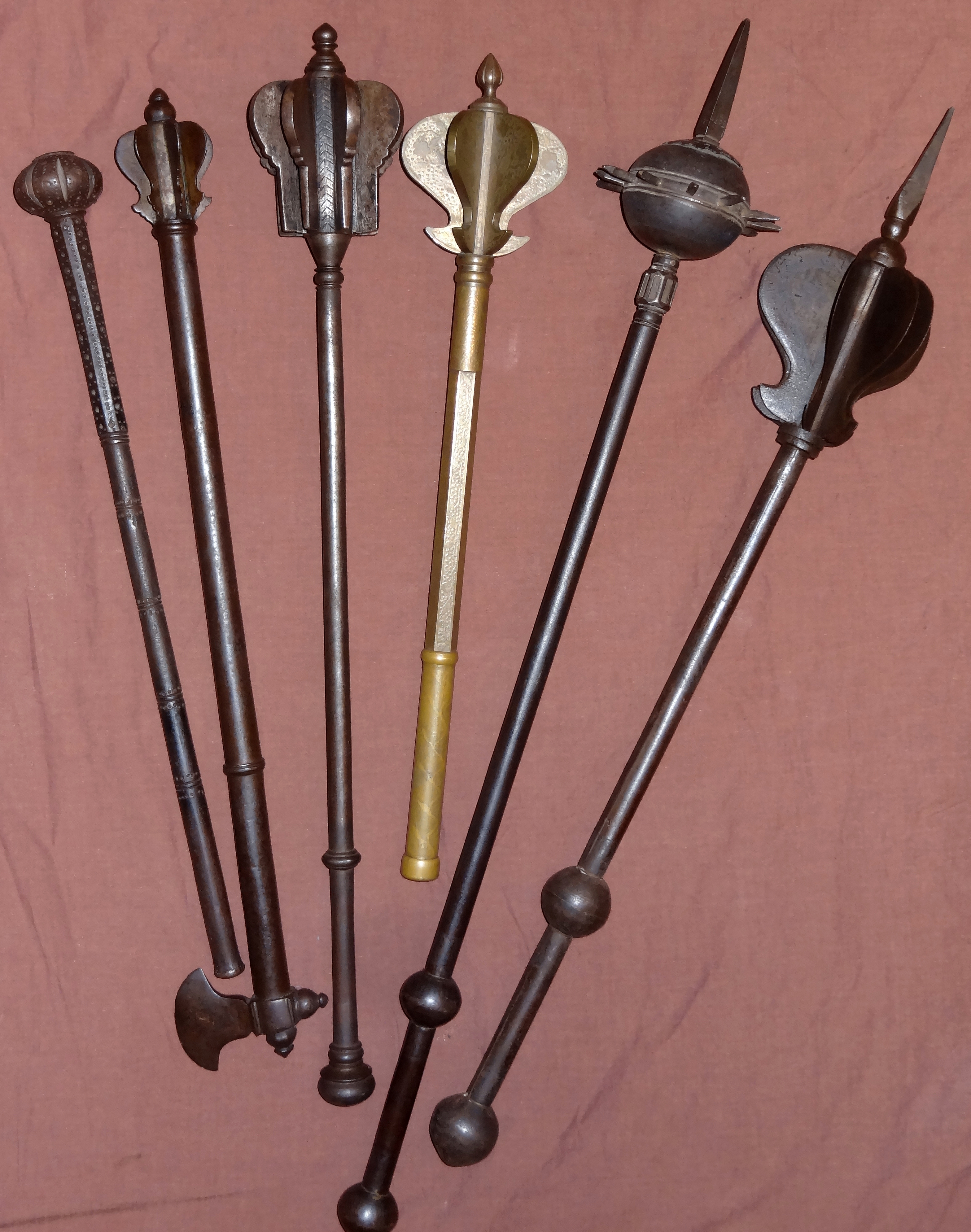 Various Indo-Persian maces, from the left:Bozdogan / buzdygan (Ottoman), tabar-shishpar (Indian), shishpar (Indian), shishpar (unknown), gurz (Indian), shishpar (Indian).